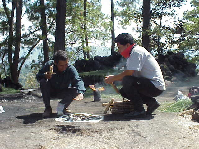 Traditional religious ceremony, Guatemala